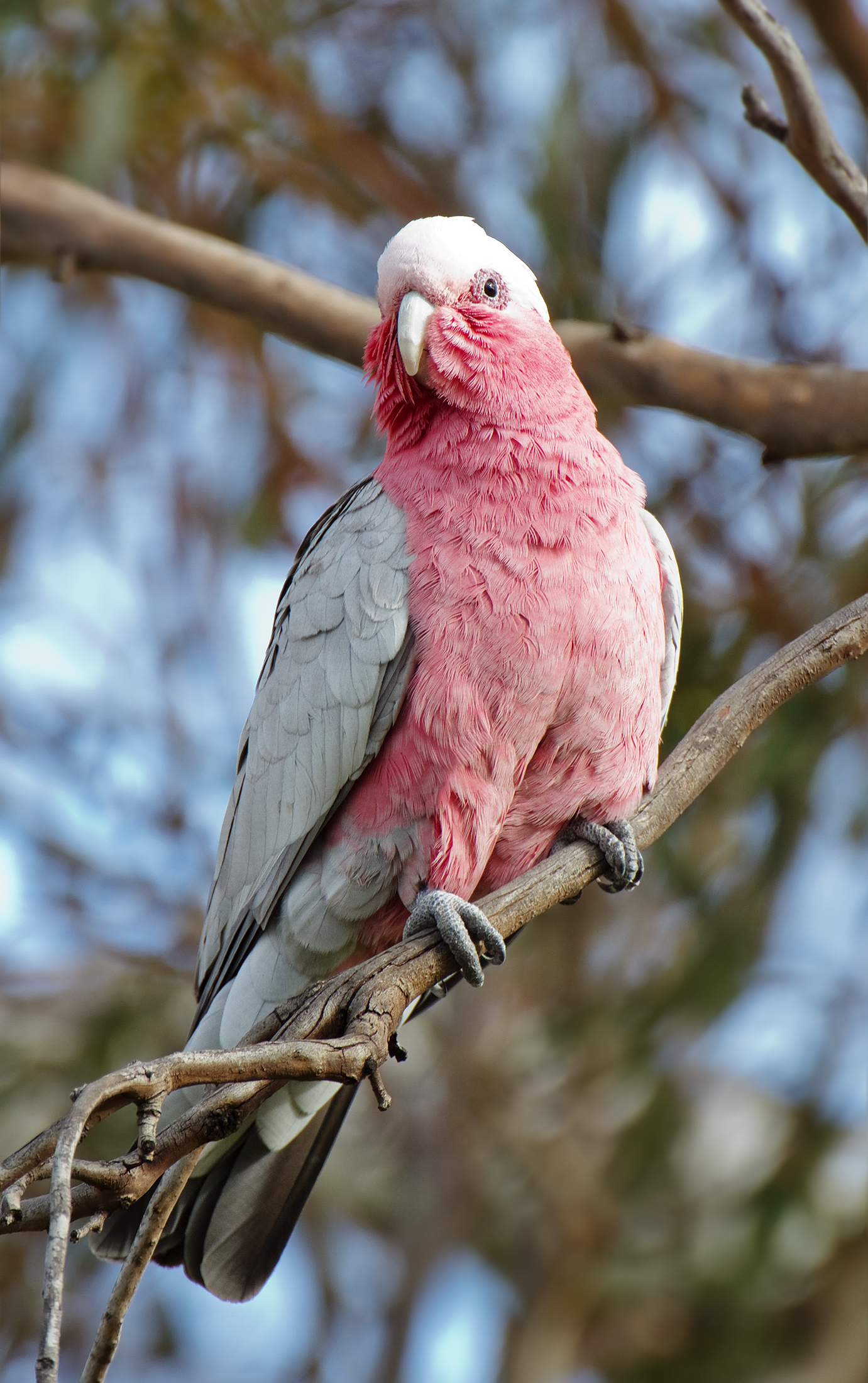 Galah (Eolophus roseicapilla), Male, Austin's Ferry, Tasmania, Australia